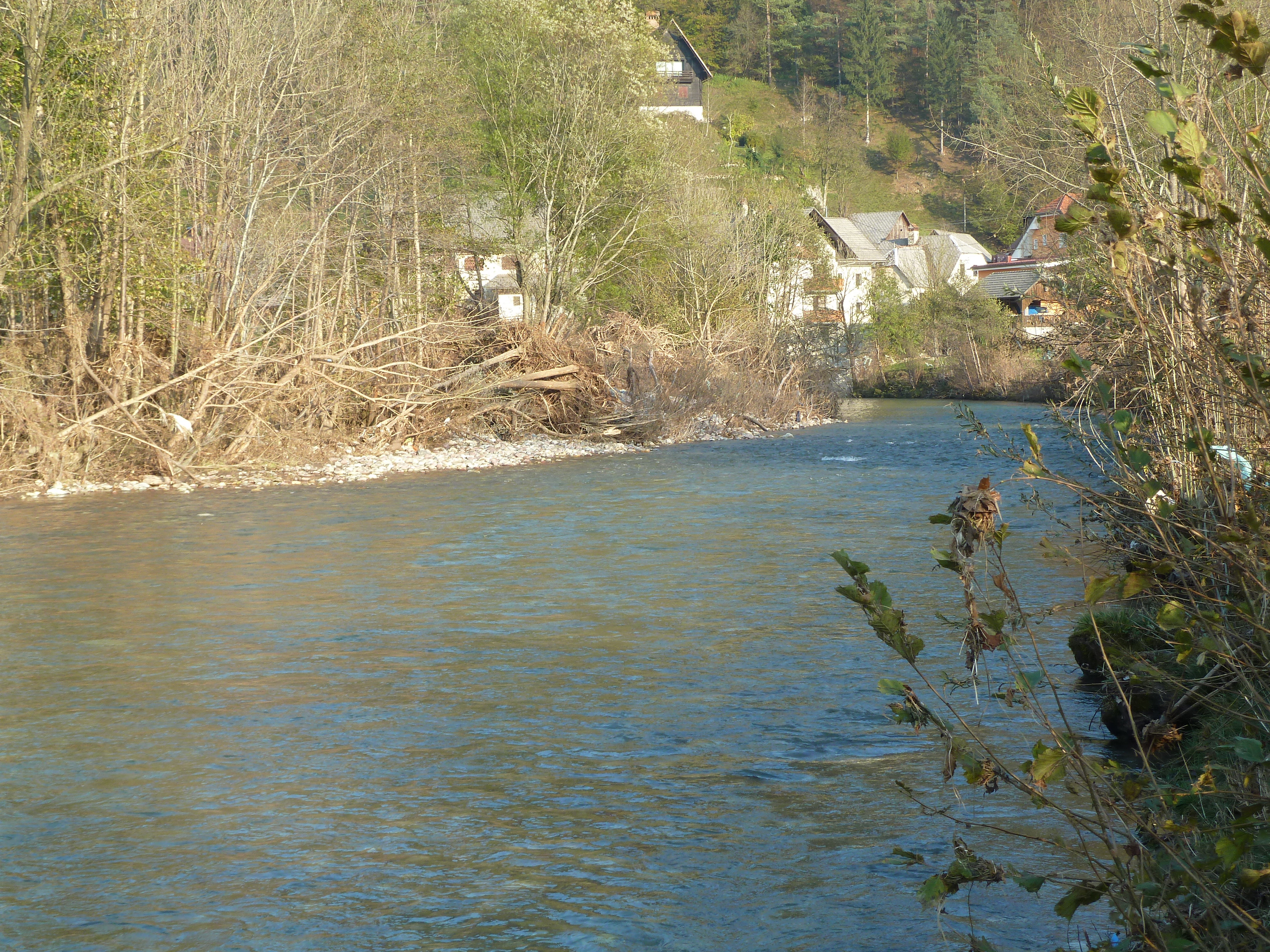 Poljanska Sora river at Poljane